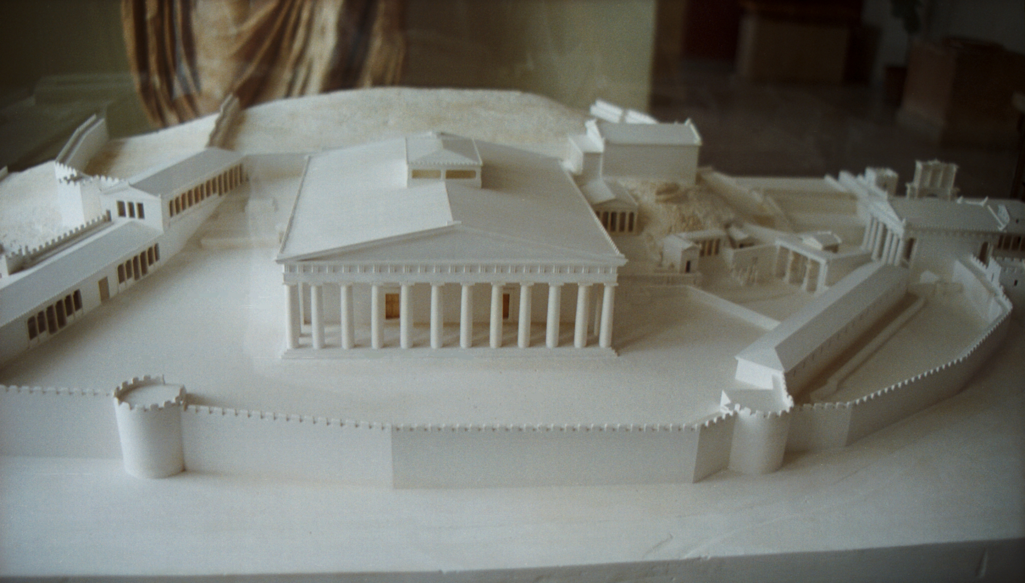 Reconstruction of Eleusinian sacred area in Roman times. Added Propylaia (right), Stoa, and other buildings around. (It has to do with the revitalization of the old mysteries in late antiquity.) Archaeological Museum of Eleusis.